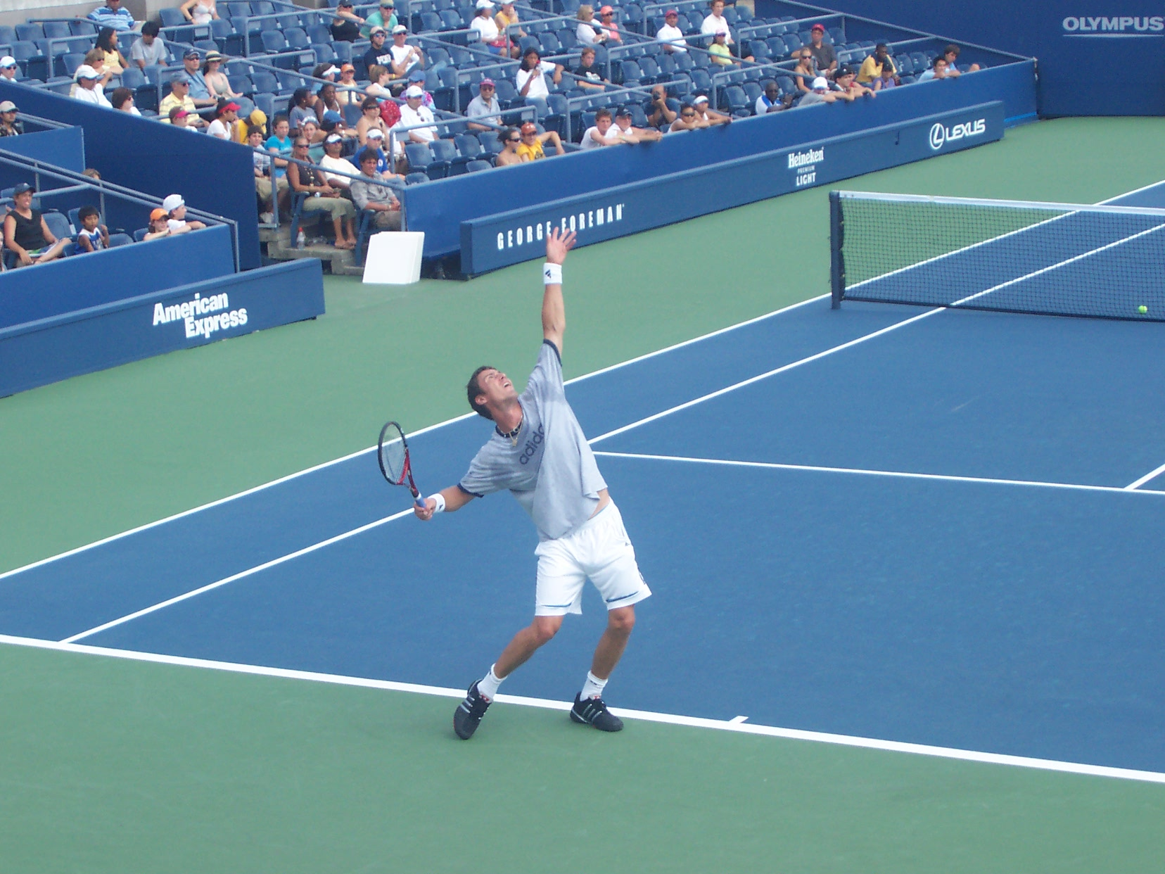 photo taken by me(Alexisrael) of Marat Safin at the 2006 U.S. Open